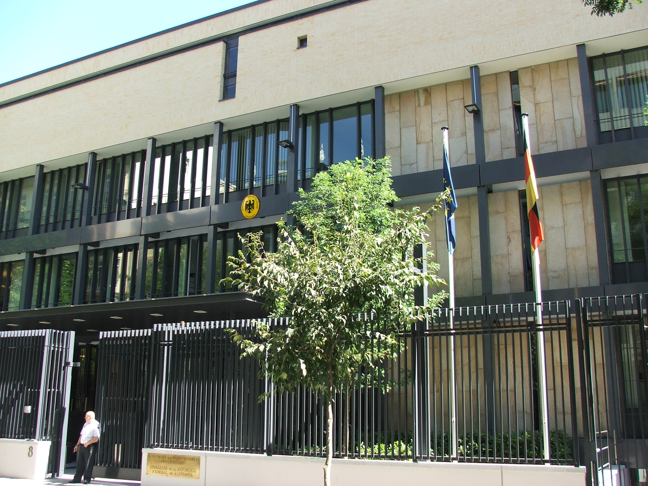 Embassy of Germany in Madrid - Spain.